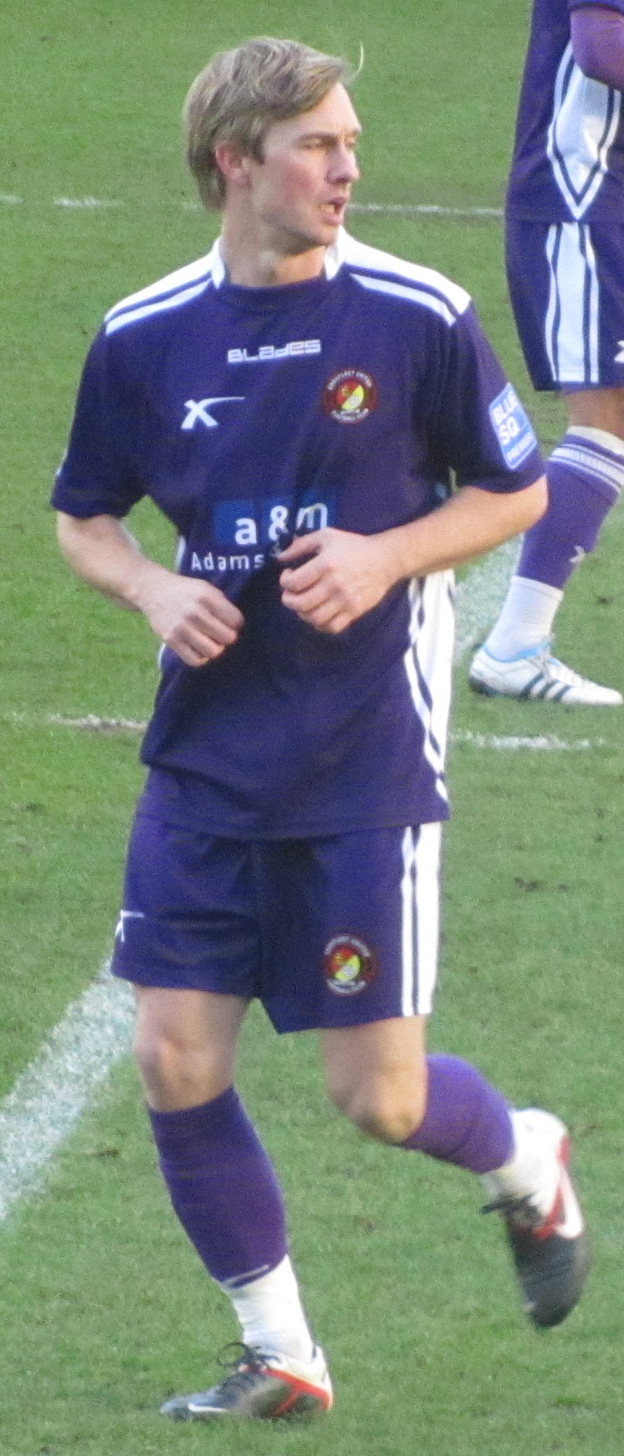 Neil Barrett